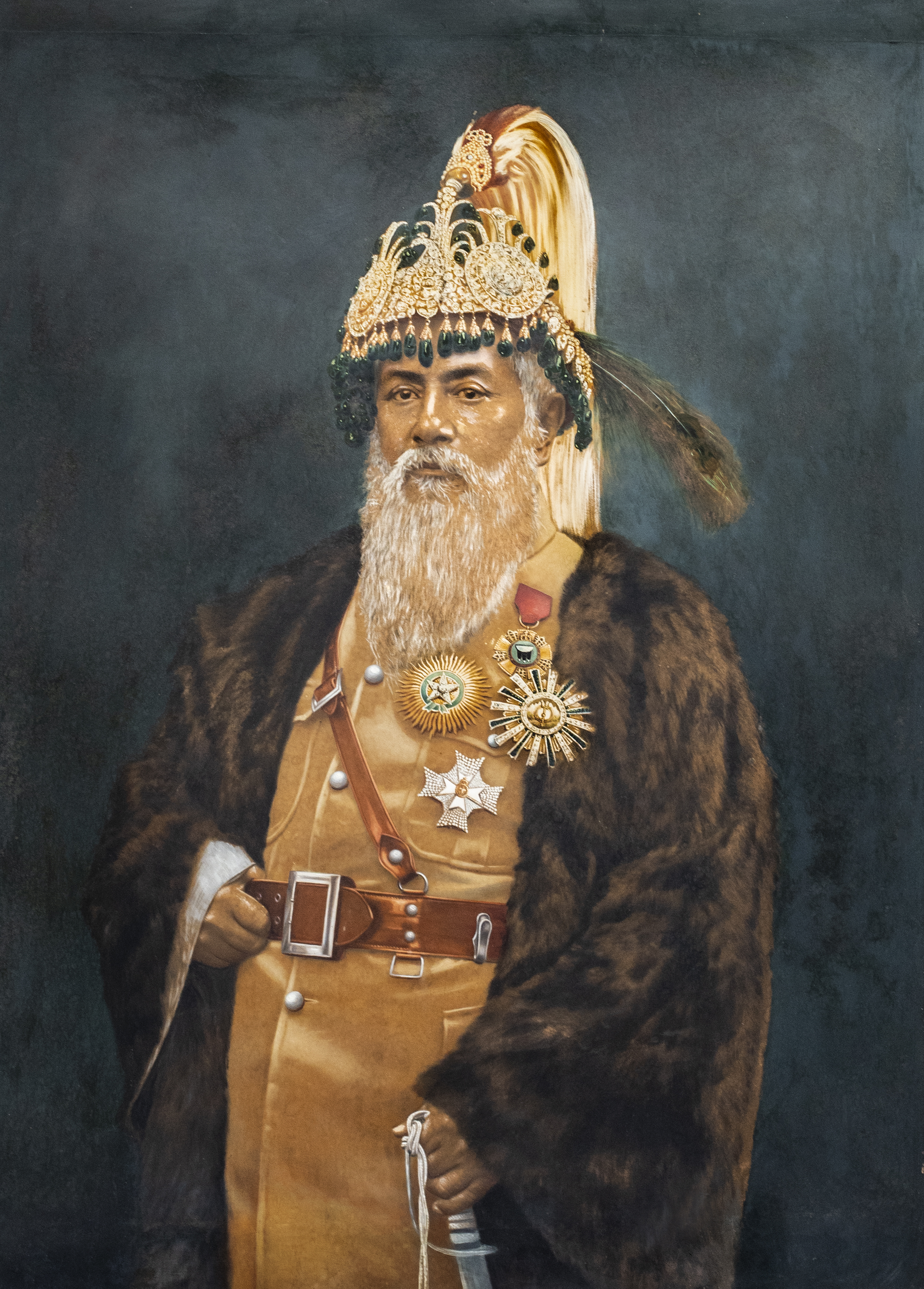 Painting of Sri Tin Maharaj Bhim Shumsher Jang Bahadur Rana, who ruled Nepal from 26th November 1929 until his death on 1 September 1932, making him the sixth ruler of the Rana Dynasty of Nepal. He was born on 16 April 1865. Maharaj Bhim Shumsher held the following titles some of which are displayed in this photograph: T’ung-ling-ping-ma-Kuo-Kang-wang (Republic of China), Maharaja of Lambjung and Kaski (Nepal), GCSI (01.01.1931), KCSI (01.01.1917), GCMG (22.12.1931), KCVO (24.12.1911), and Supradipta Manyabara Commander-in-Chief. Maharaj Bhim Shumsher was awarded the following military titles some of which are displayed in this photograph: Field Marshal of Nepalese Army on 26 November 1929; Honorary Major General of British Army on 4 April 1930, Honorary Colonel of the 4th Prince of Wales’s Gurkha Rifles on 4 April 1930, Honorary General of the Chinese Army on 23 February 1932. He was also awarded the Grand Master of the Most Refulgent Order of the Star of Nepal.